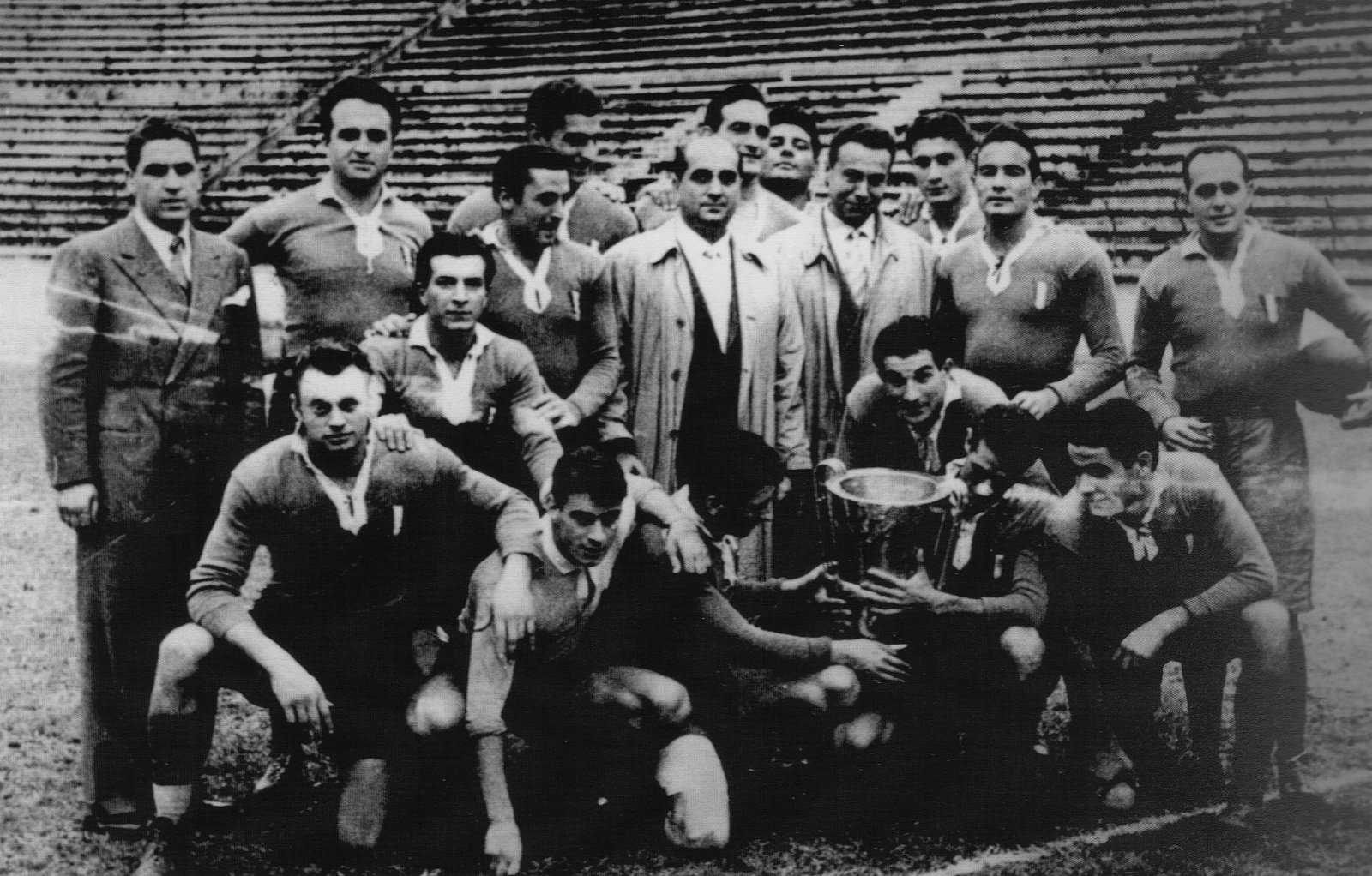 Players of Rugby Roma show the trophy of the Italian Championship won at the end of 1947-48 season